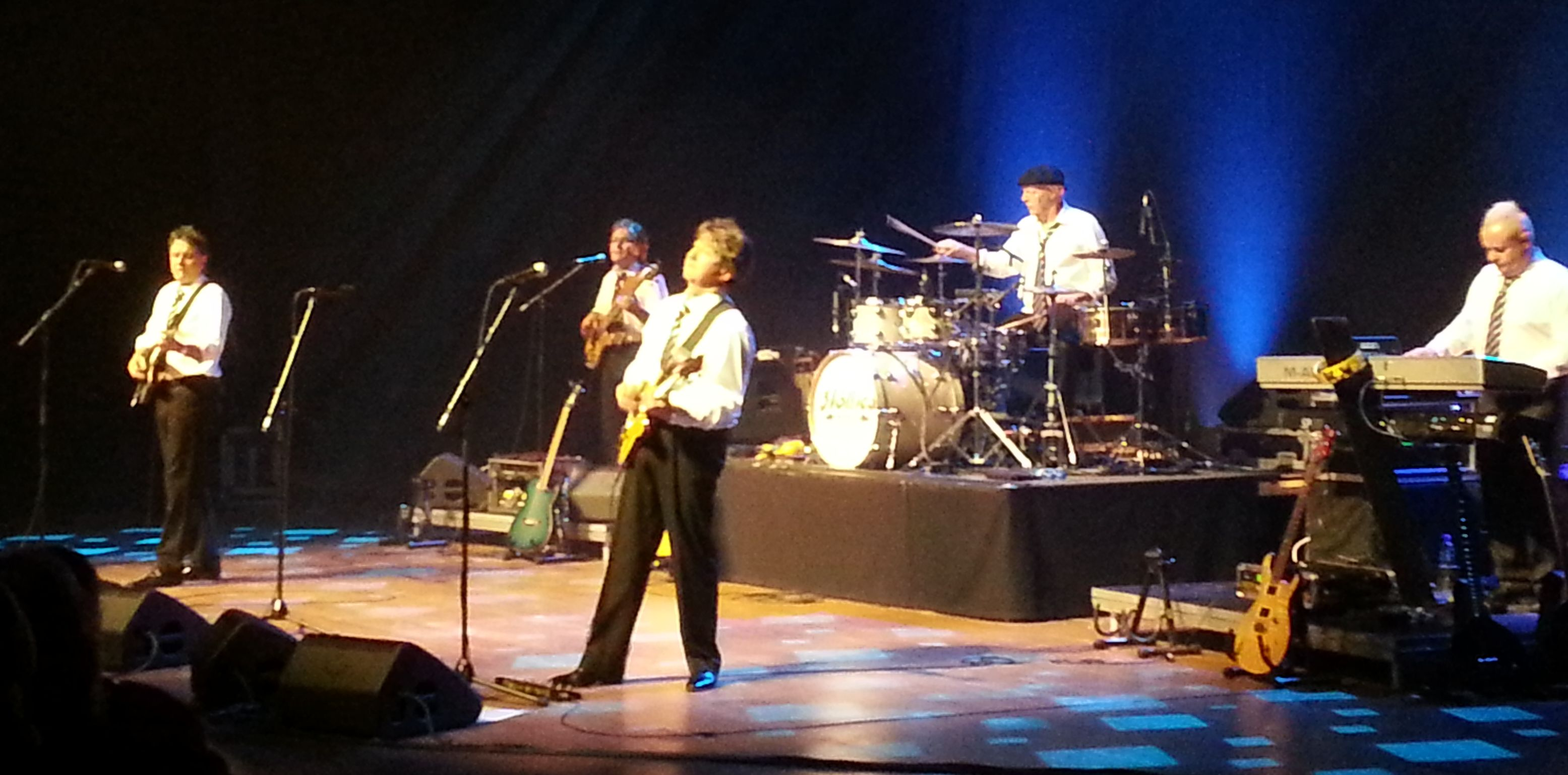 Ian Parker (right) with The Hollies in Norway 2013